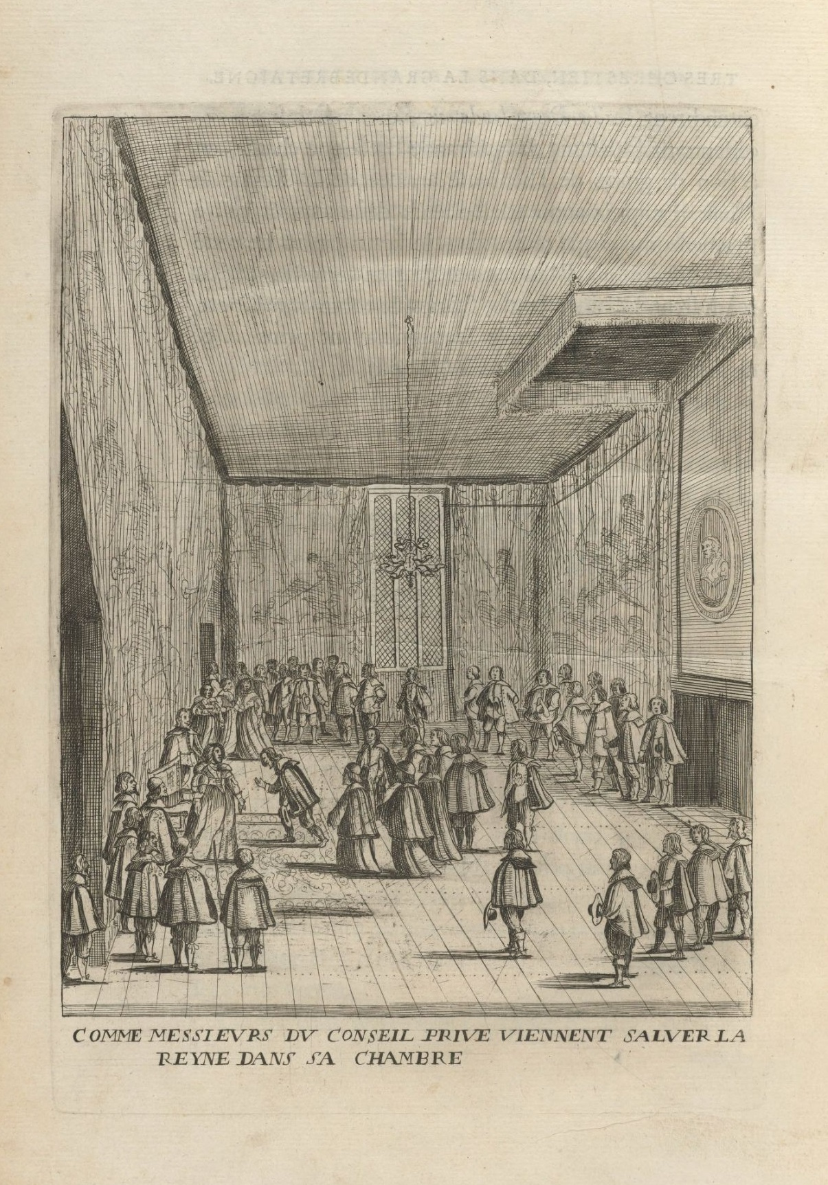 Illustration from Histoire de l’entree de la reyne mere du roy tres-Chrestien, dans la Grande-Bretaigne, 1639, by Jean Puget de la Serre (1594-1665). STC 20488, Houghton Library, Harvard University